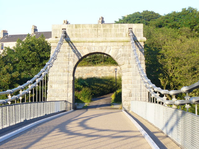 On the Chain Briggie The Wellington Suspension Bridge was built in 1830 and helped the development of the fishing village, Torry, on the Kincardineshire bank of the Dee. Today, the bridge only carries pedestrian traffic.